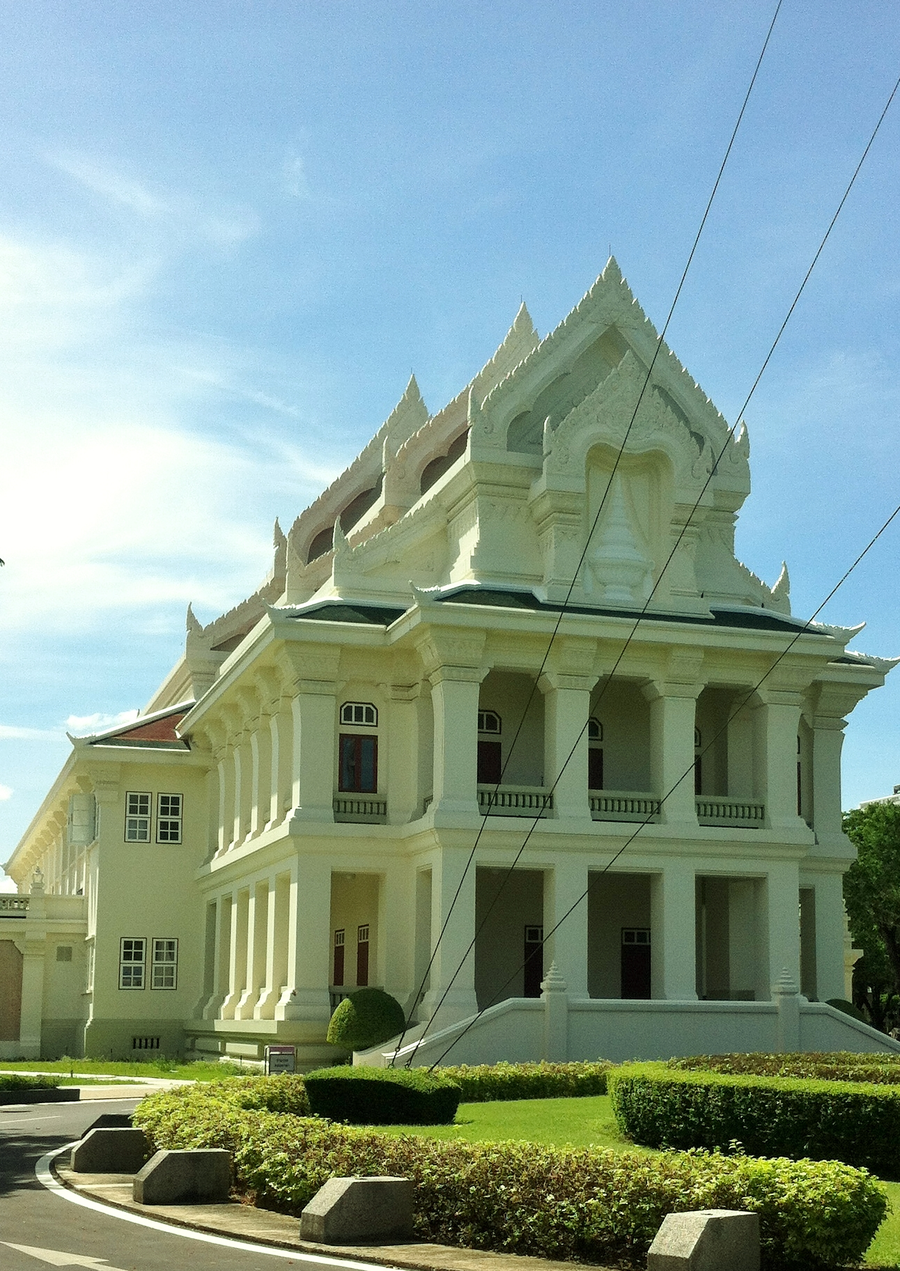 Main Auditorium of Chulalongkorn University Category:Chulalongkorn University Category:Chulalongkorn University Auditorium